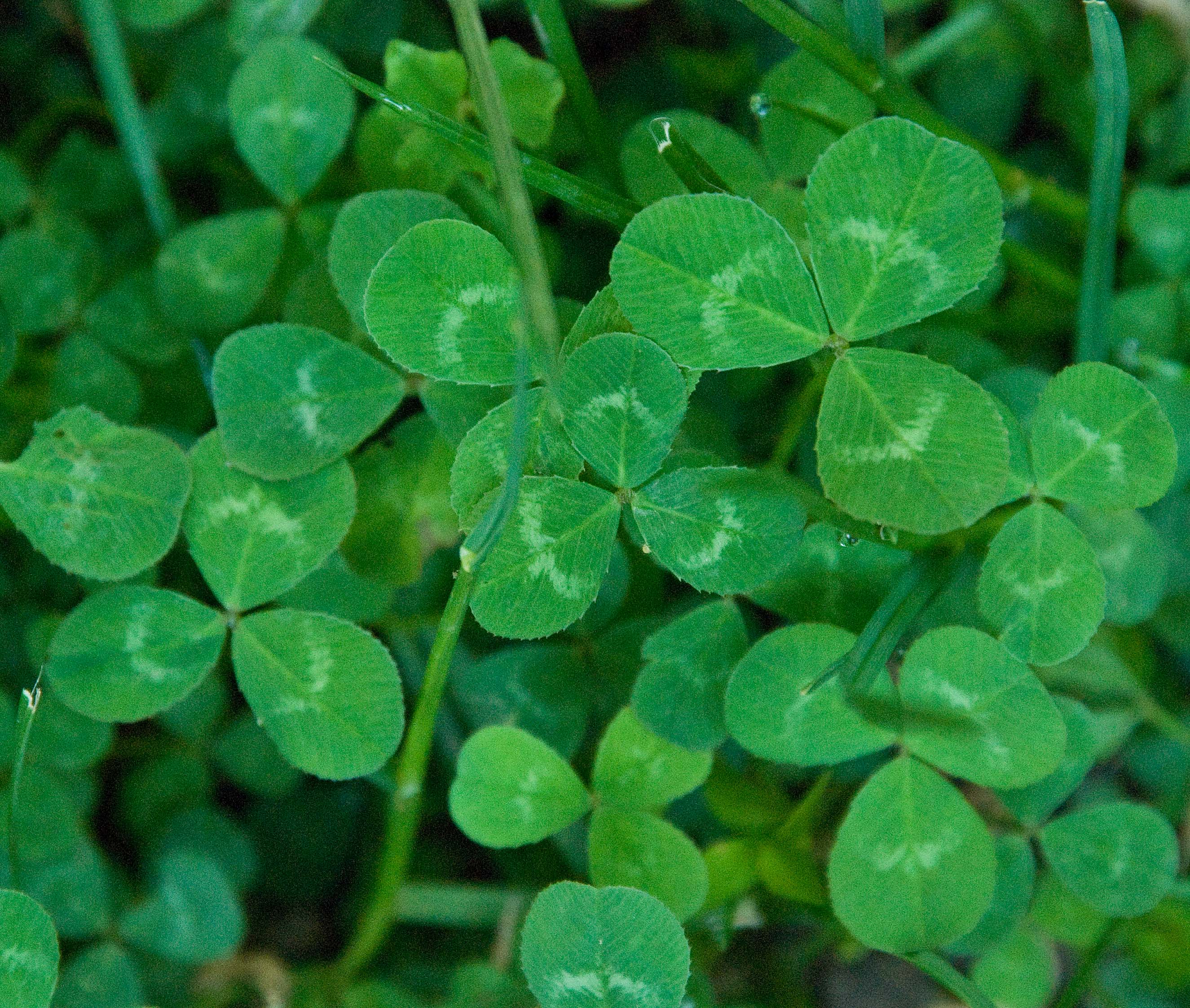 leaves of white clover